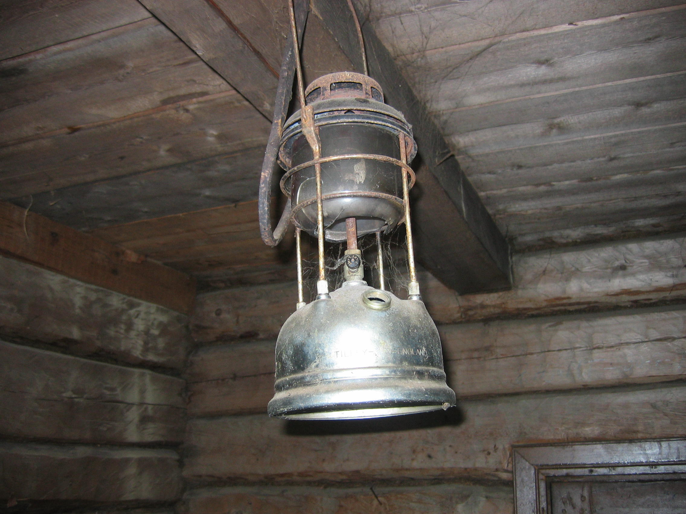 Old-fashioned worn-out "Tilley" lamp from Finland.